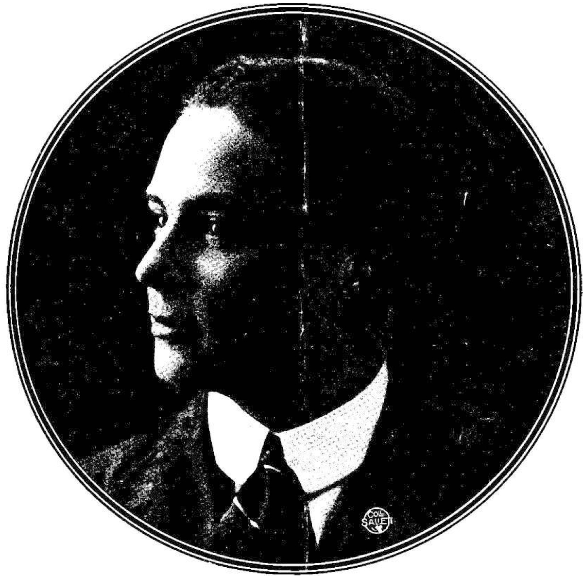 George Pattullo, Scottish FC Barcelona player between 1910-1912.